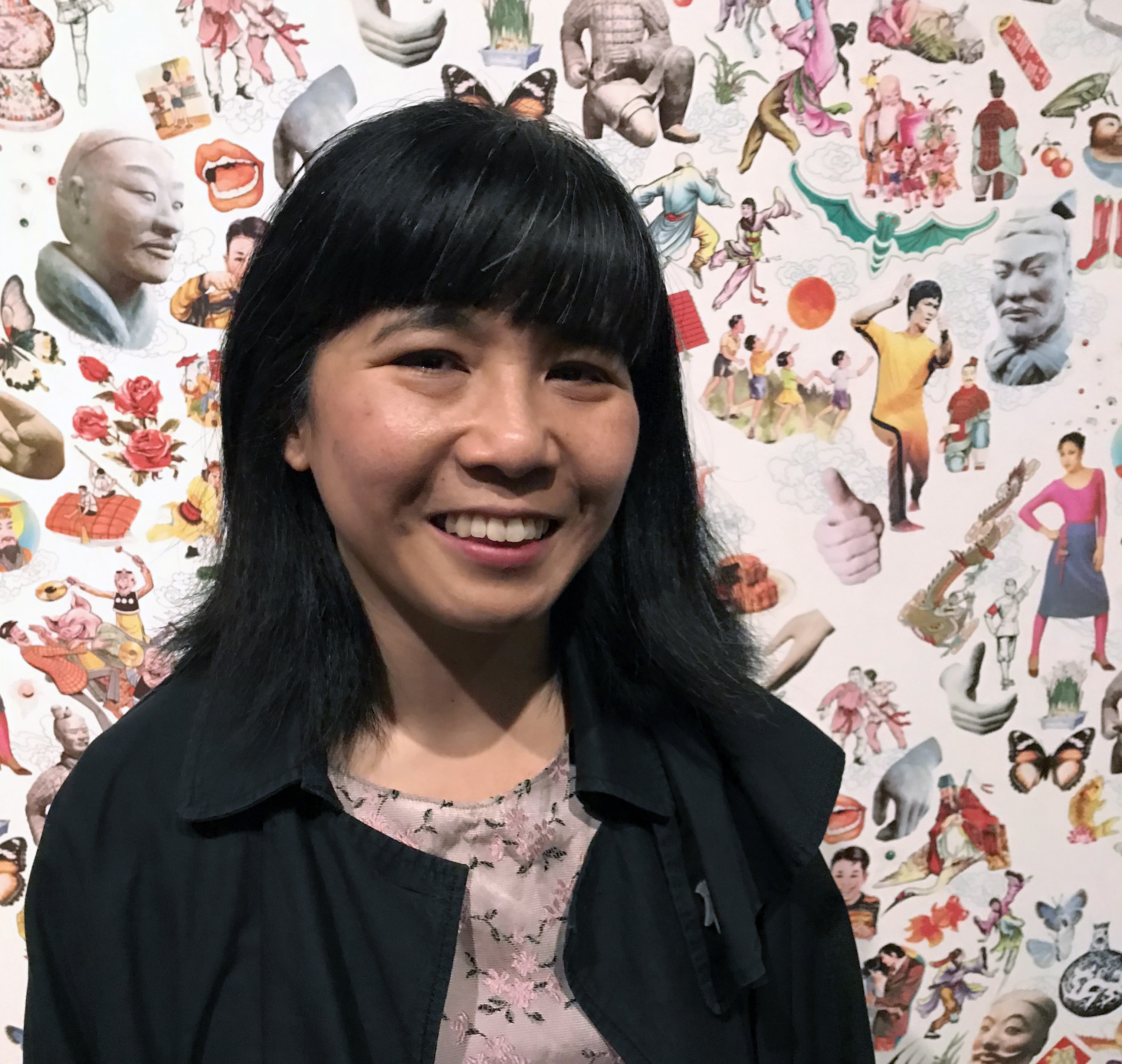 Wellington artist and designer Kerry Ann Lee at the launch of her Te Papa installation Return to Skyland